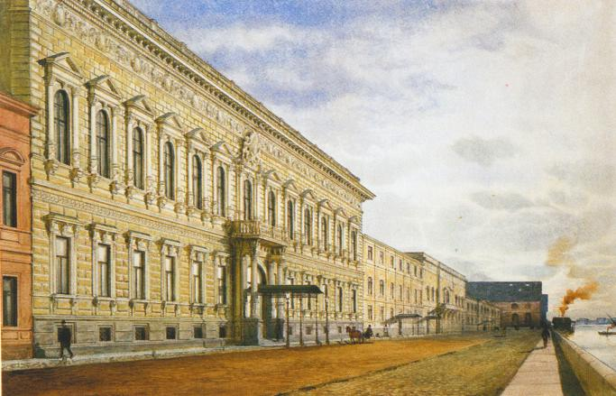 Palace of Baron А. L. Stieglitz at the Angliiskaya Embankment. Watercolour by Albert N. Benois. Late 19th century.